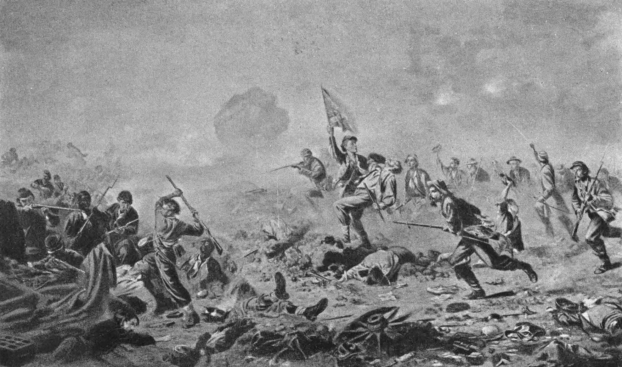 The Bugle — the school yearbook — for Virginia Agricultural and Mechanical College and Polytechnic Institute (now Virginia Tech) from 1899.